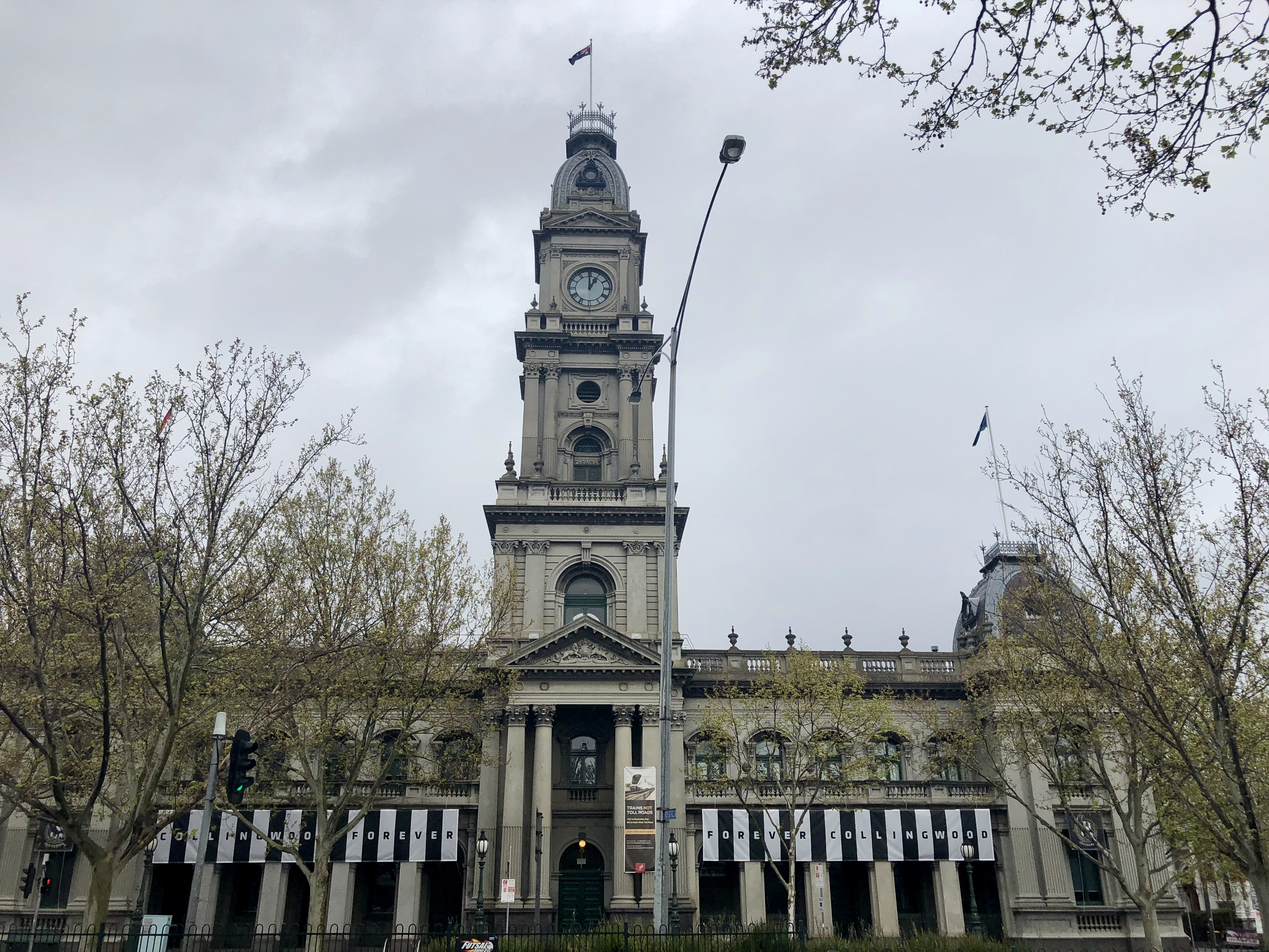 Collingwood Town Hall, formerly the municipal chambers for the City of Collingwood, now an office building for the City of Yarra.